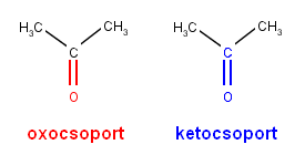 The functional group of acetone